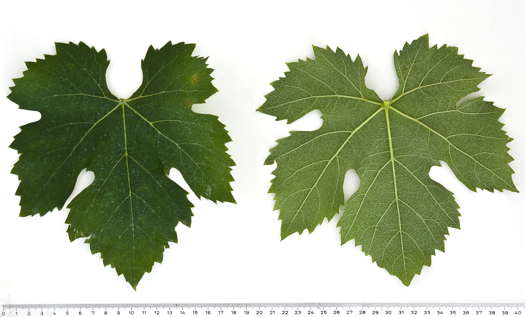 A mature leaf of the Italian grape variety Nebbiolo (top and bottom)